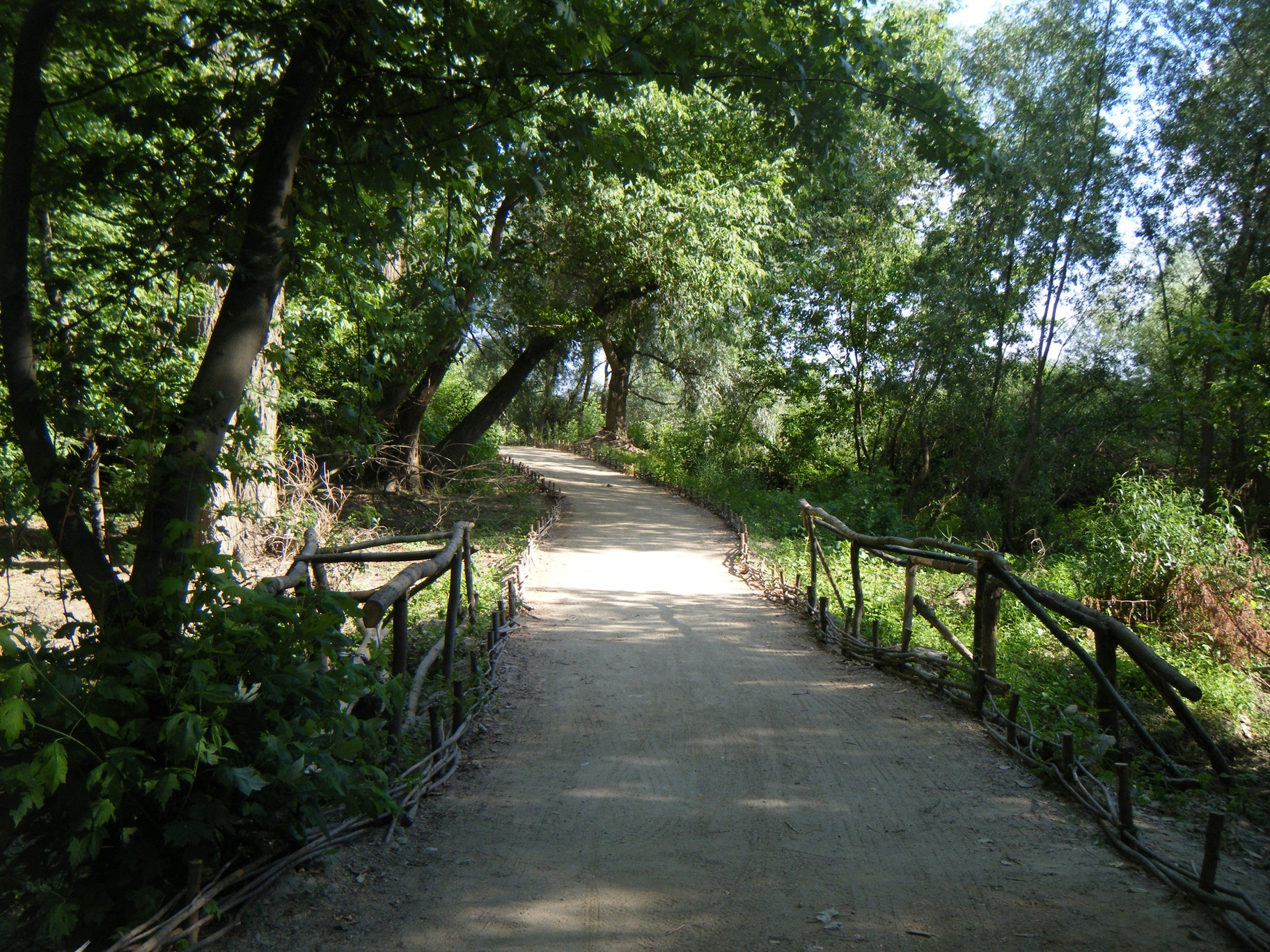 The bikeway near Vistula river in Warsaw